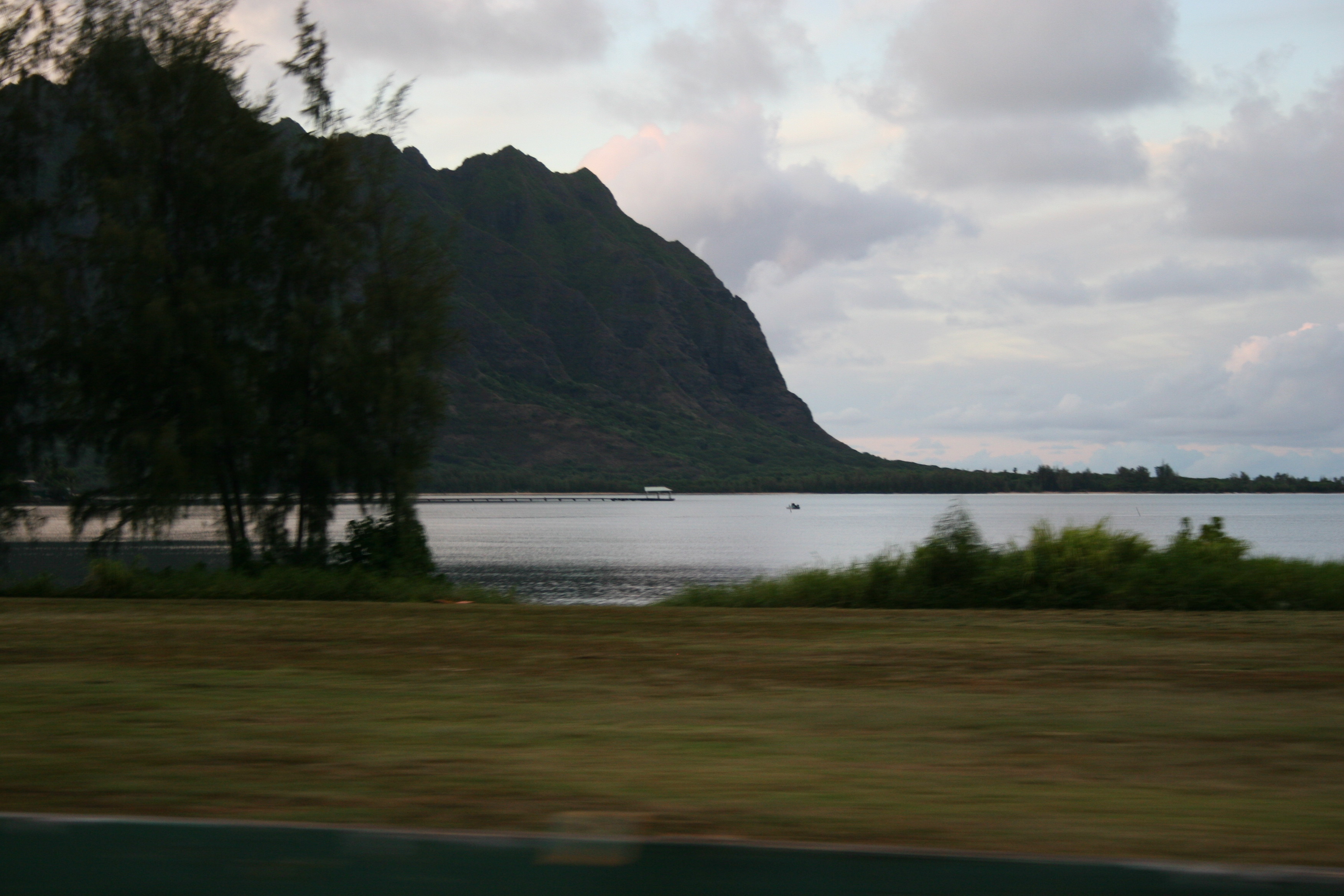 This is the dock from the really totally awesomesauce (and my favorite) show, LOST.